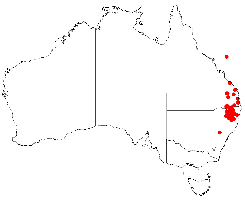 Bossiaea scortechinii Occurrence data downloaded 11 September 2018 from AVH